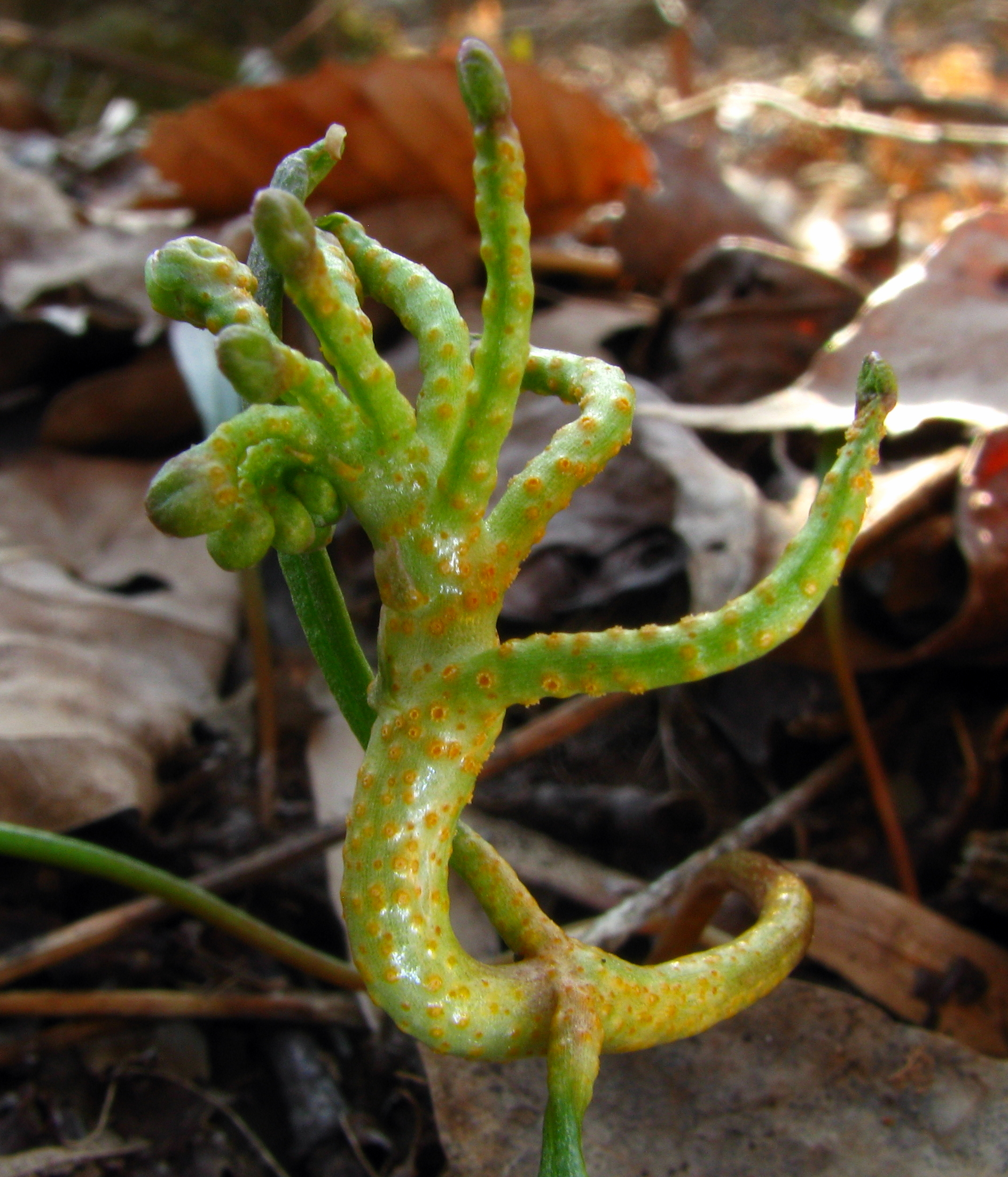 The rust fungus Puccinia mariae-wilsoniae infecting the plant Claytonia virginica. Photographed in Egypt Valley Wildlife Area, Belmont Co., Ohio, USA.